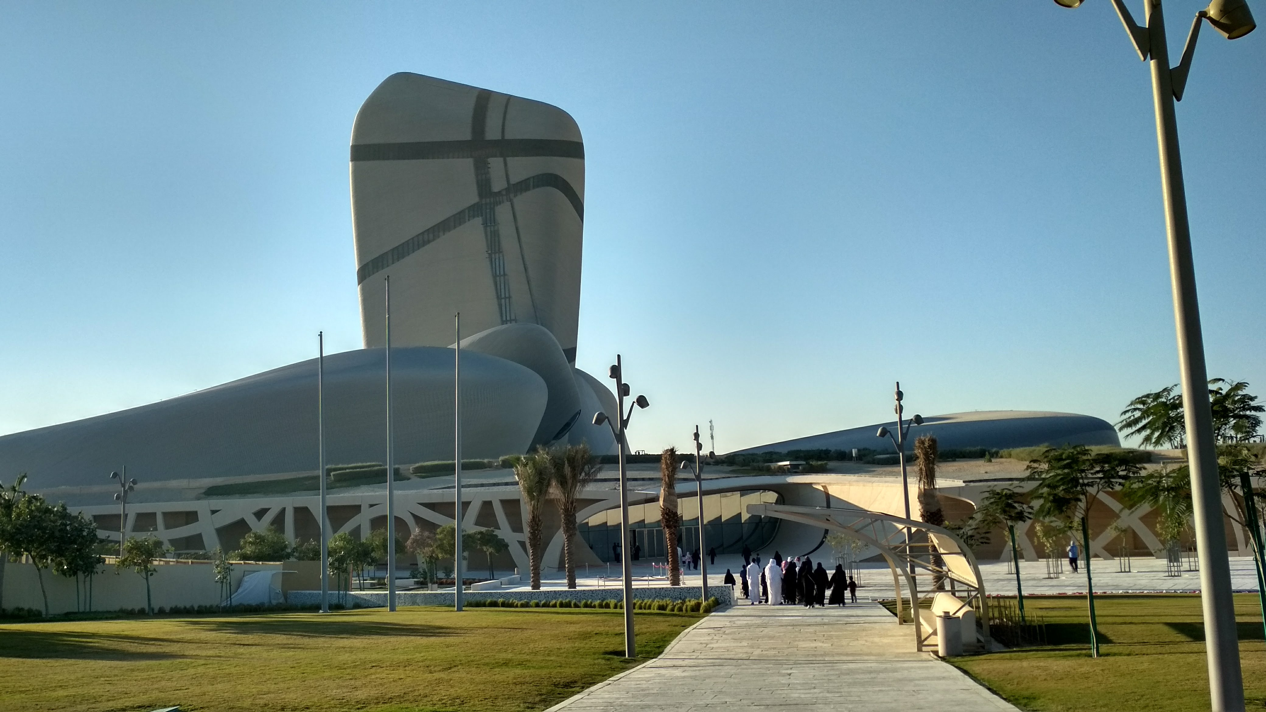 King Abdulaziz Center for World Culture facade